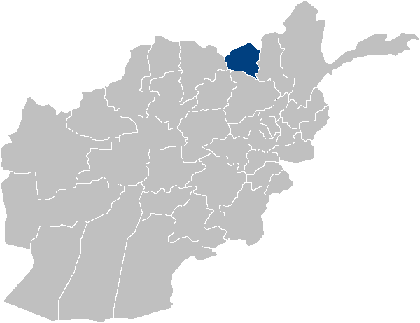 Location map for Kunduz Province in Afghanistan. Original map source: Image:Afghanistan_provinces_blank.png